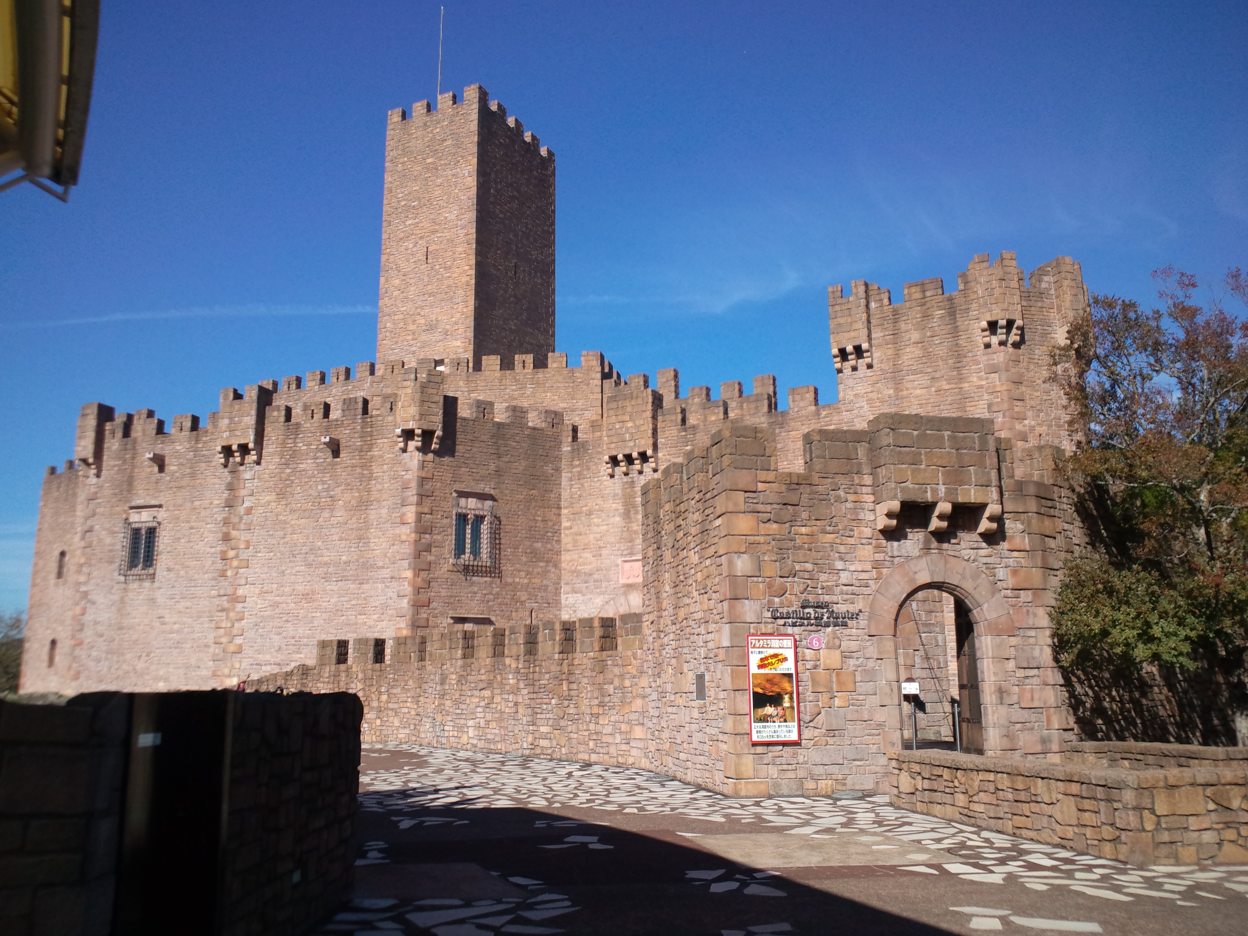 Shima Spain Village "PARQUE ESPAÑA" - Xavier Castle Museum